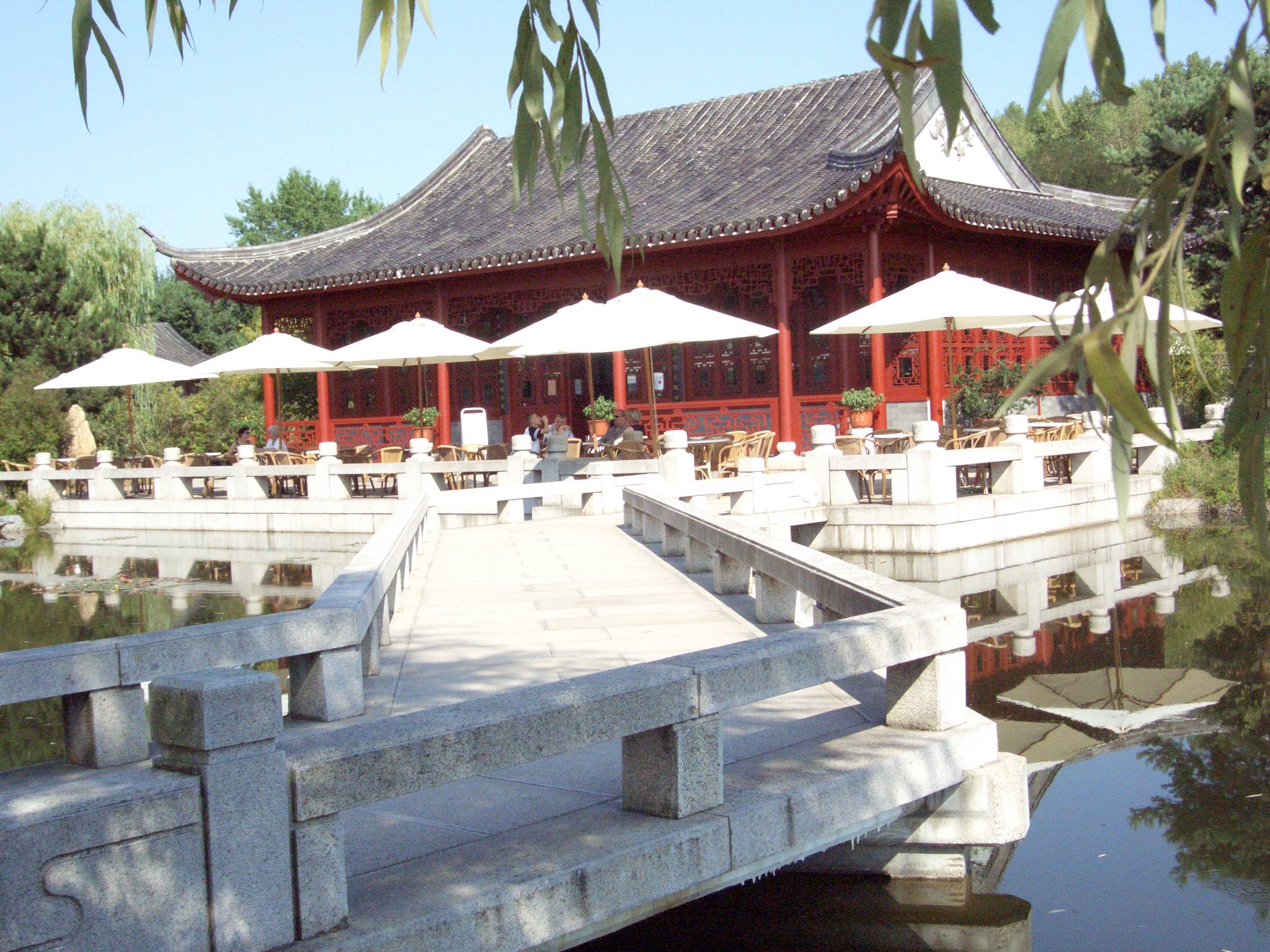 Erholungspark Marzahn - chinese garden "The Regained Moon"